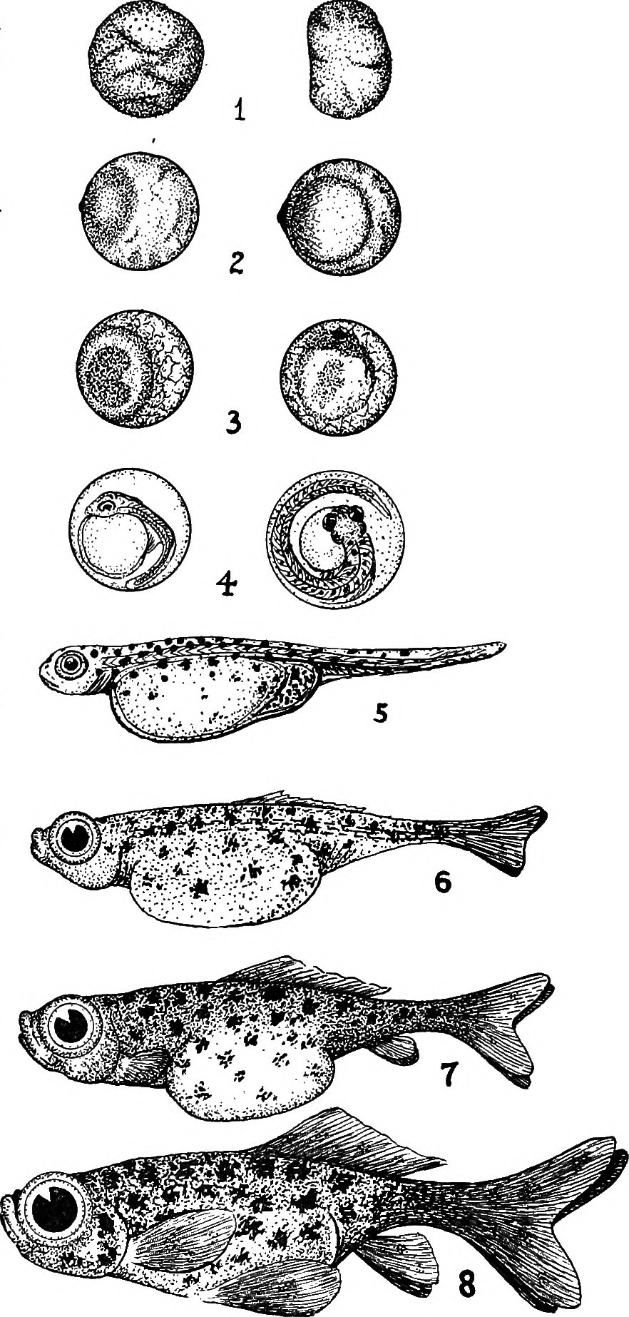 Title: Goldfish breeds and other aquarium fishes, their care and propagation; a guide to freshwater and marine aquaria, their fauna, flora and management Year: 1908 (1900s) Authors: Wolf, Herman Theodore, 1855- Subjects: Aquariums; Goldfish Publisher: Philadelphia, Innes & Sons Text Appearing Before Image: THE PROPAGATION OF THE GOLDFISH Mating. The mating season of the goldfish is during the warm spring and summer months, when the water is at 60° or over, and spawn- ings occur at frequent intervals, as with this species of Cyprinidae all the FIG. 55. Embriology of the Goldfish. Newly exuded egg, not fecundated, wrin- kled and unexpanded surface covered with vesicles. Full and lateral views. Egg, four and ten hours after fecundation, showing germination and formation of membrane. Development of embrio and plasmic pro- cesses at edge of membrane, 24 and 34 hours after spawning. 4. Development of alevin and yolk-sac, 50 and 58 hours after spawning. 5, Free-swimming alevin attached to the yolk- sac, showing skeleton, partly developed digestive organs and surface colors. Four days old. 6. Alevin five days old; dorsal and caudal fins partly developed. 7. Alevin seven days old; pectoral and anal fins developed. The fully developed Telescope fry, ten days old. Text Appearing After Image: Greatly enlarged, i^ctual size, No. 8, ;- eggs do not mature at the same time. During this period the distinguish- ing characteristics of the male are developed and consist;of wartlike pro- tuberances or papillose tubercles on the operculse and main rays of the pec- toral fins, Fig.. 10 (page 46), which have distinct sexual purpose. Another 90